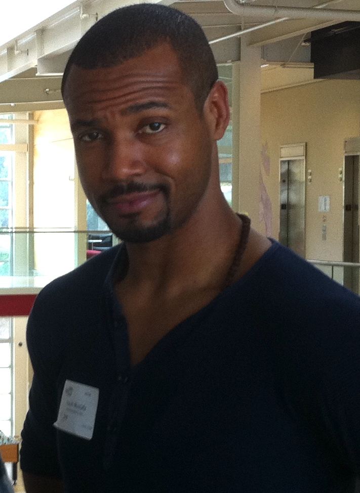 Isaiah Mustafa in 2010